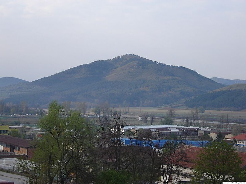 Adatepe, Çanakkale